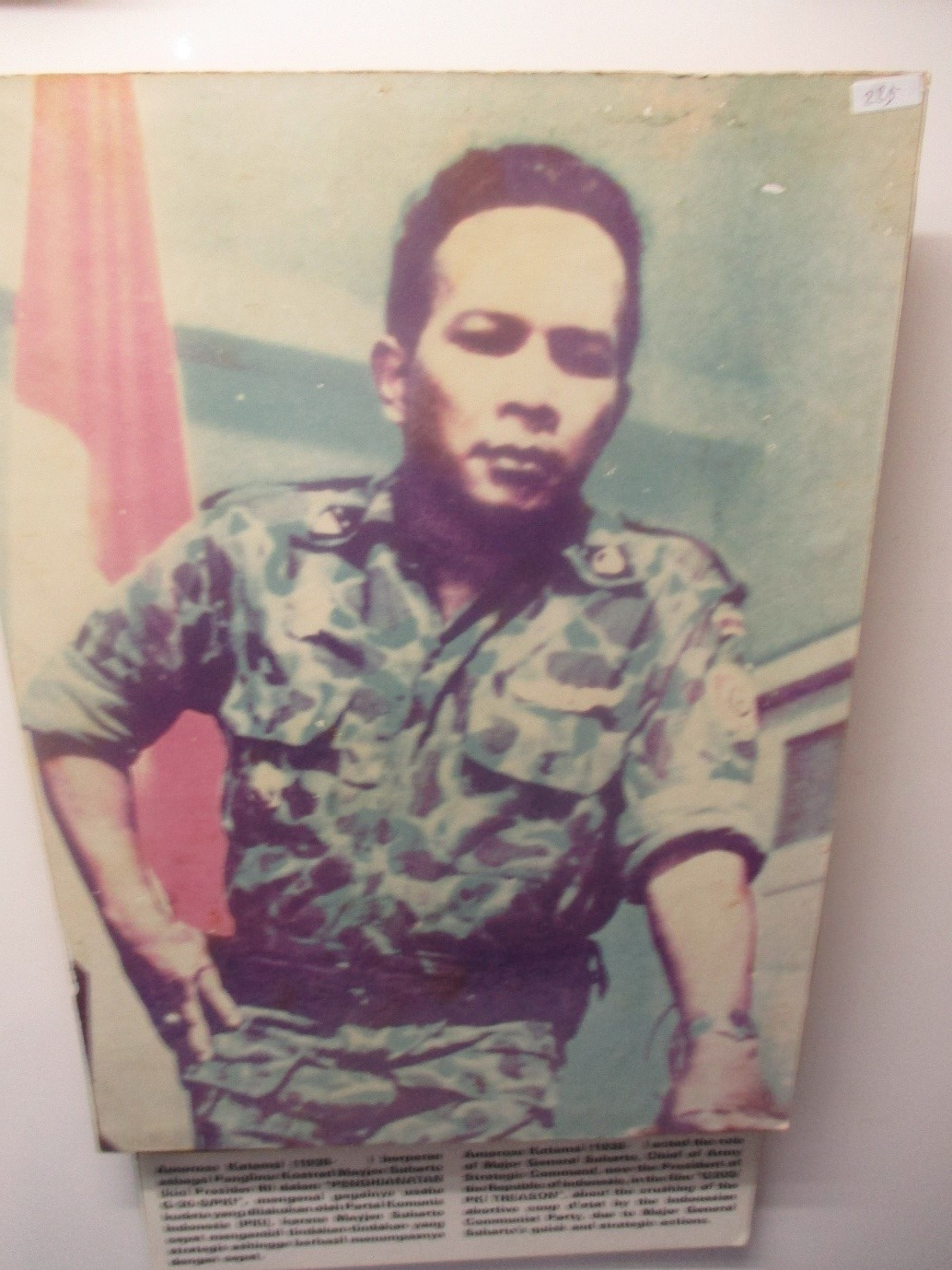 Amoroso Katamsi, born in 1938, played the role of Commander of Kostrad Major General Soeharto in the film "Betrayal of the G30 S / PKI", a film that tells of the failure of the coup attempt by the Indonesian Communist Party (PKI) because Major General Suharto quickly took strategic actions , so it was able to crush it quickly.